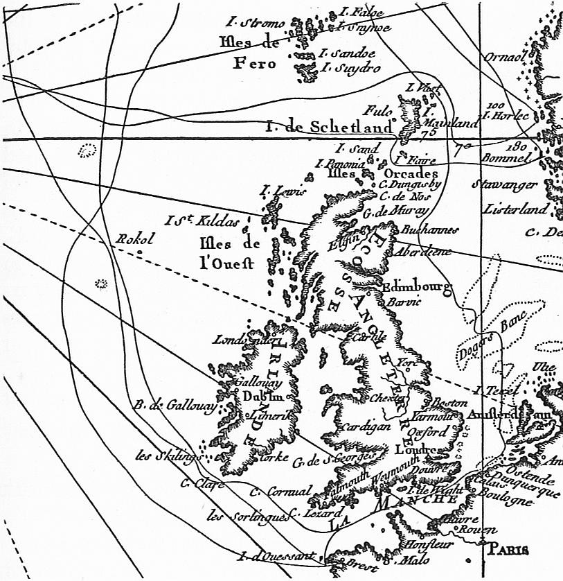 Part of this map, prepared by Jacques-Nicolas Bellin. First published in 1772 in french, showing Kerguelen's trips around Iceland in 1767 and 1768. Snippet of the Rockall area.